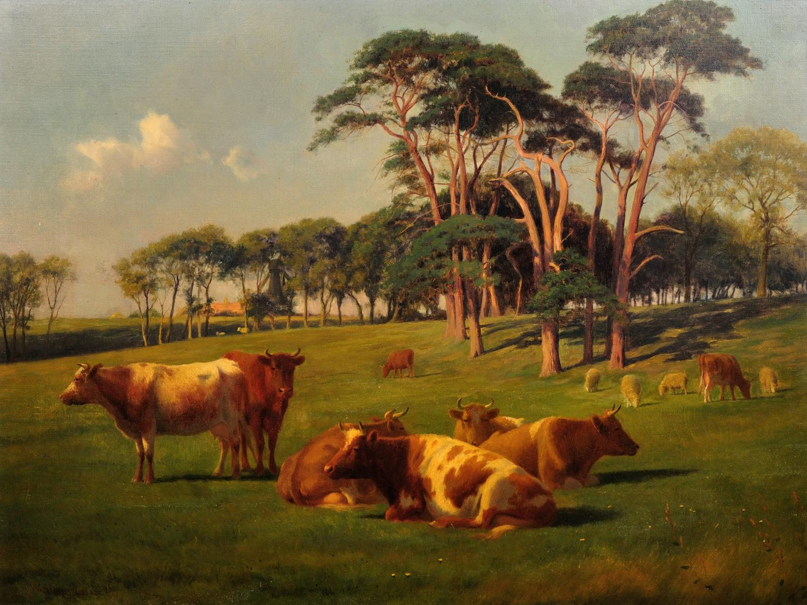 Cattle & Sheep in pasture Signed & dated 1907 bas gauche Oil on Canvas 65cm x 50cm